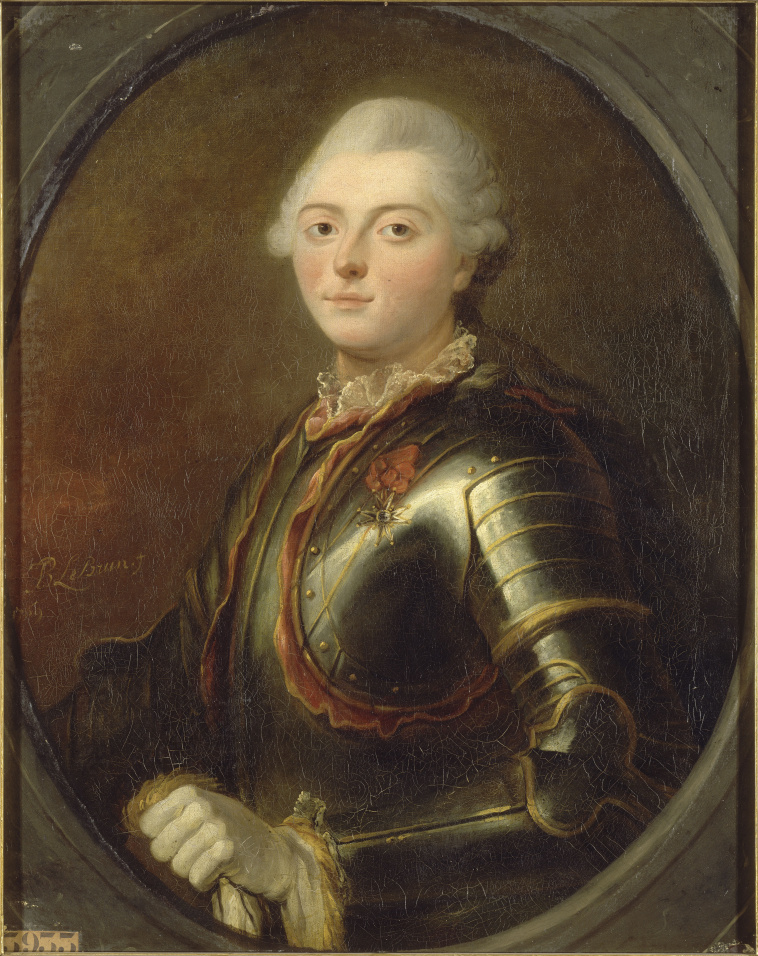 Count d'Estaing in 1769. D'Estaing commanded the French squadron sent in 1778-1779 to support the American Revolution.